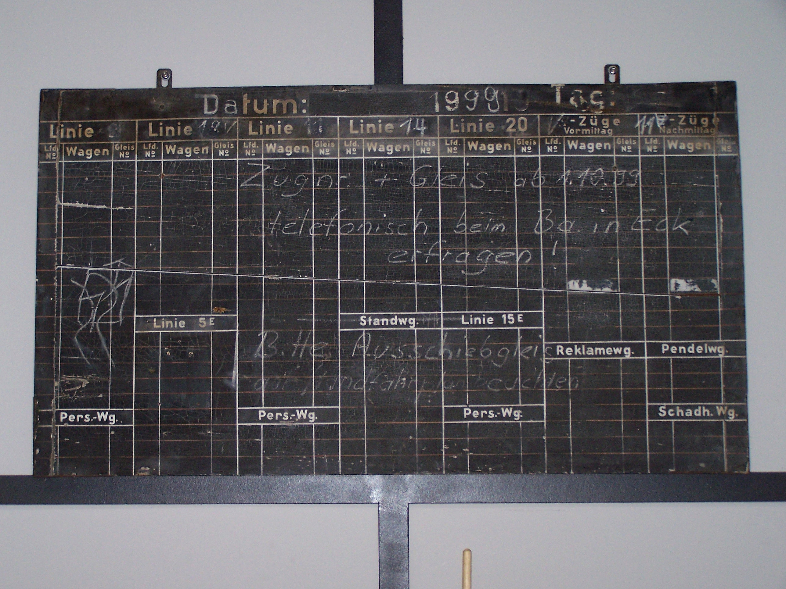 Blackboard for resource planning in the former tram depot in Frankfurt am Main-Bornheim in December 2009